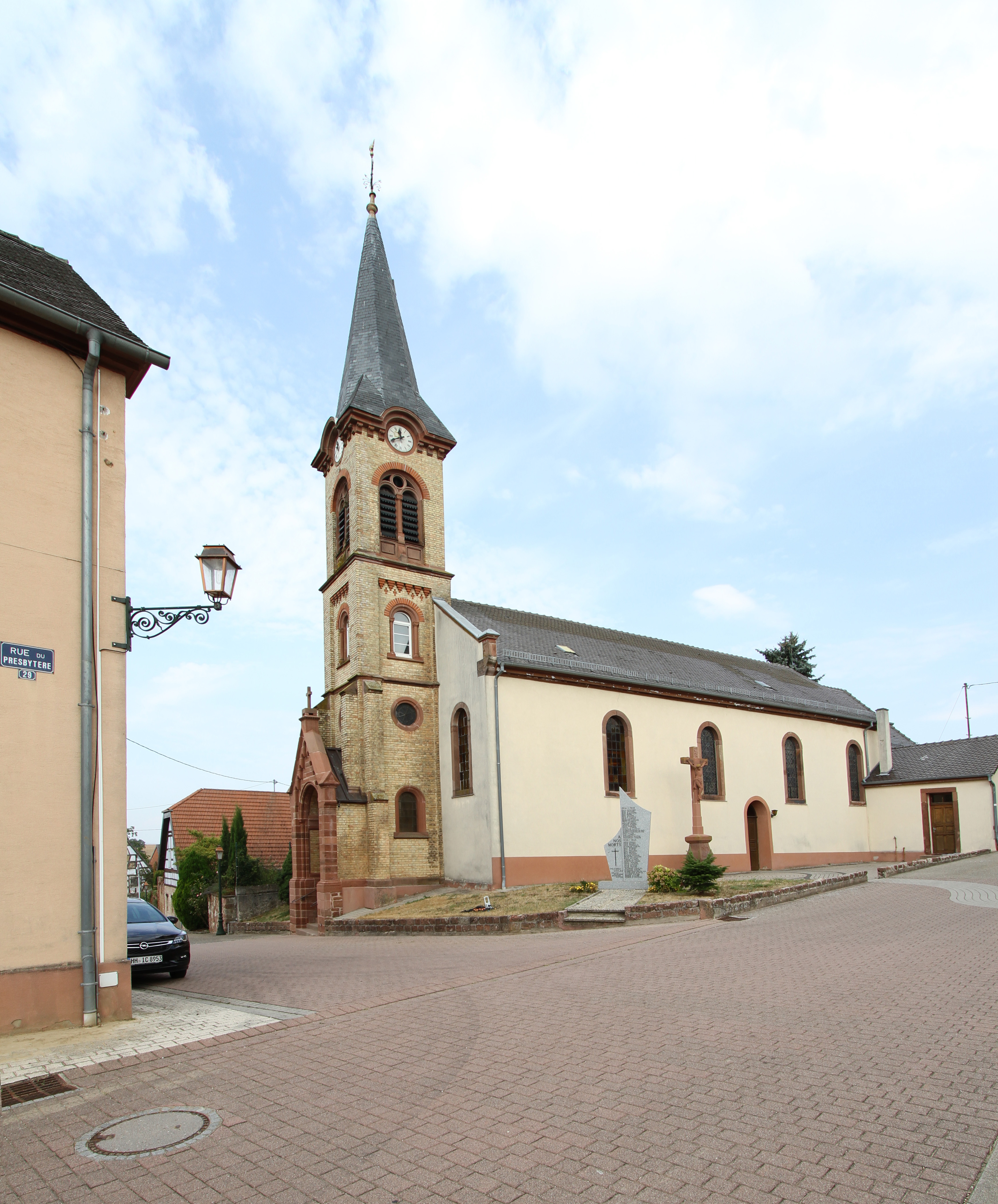 Church of Saint Lawrence in Siegen.